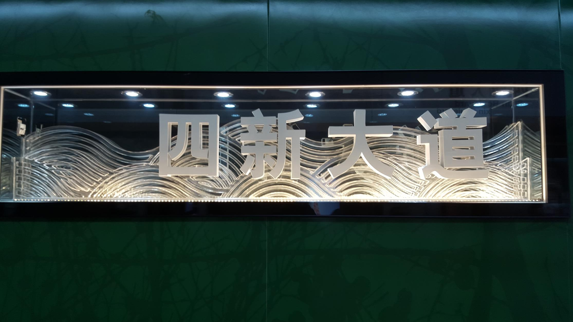 Name Box of Sixin Boulevard Station